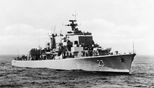 The Swedish destroyer HMS Hälsingland.